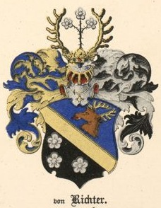 Coat of arms of Richter family.